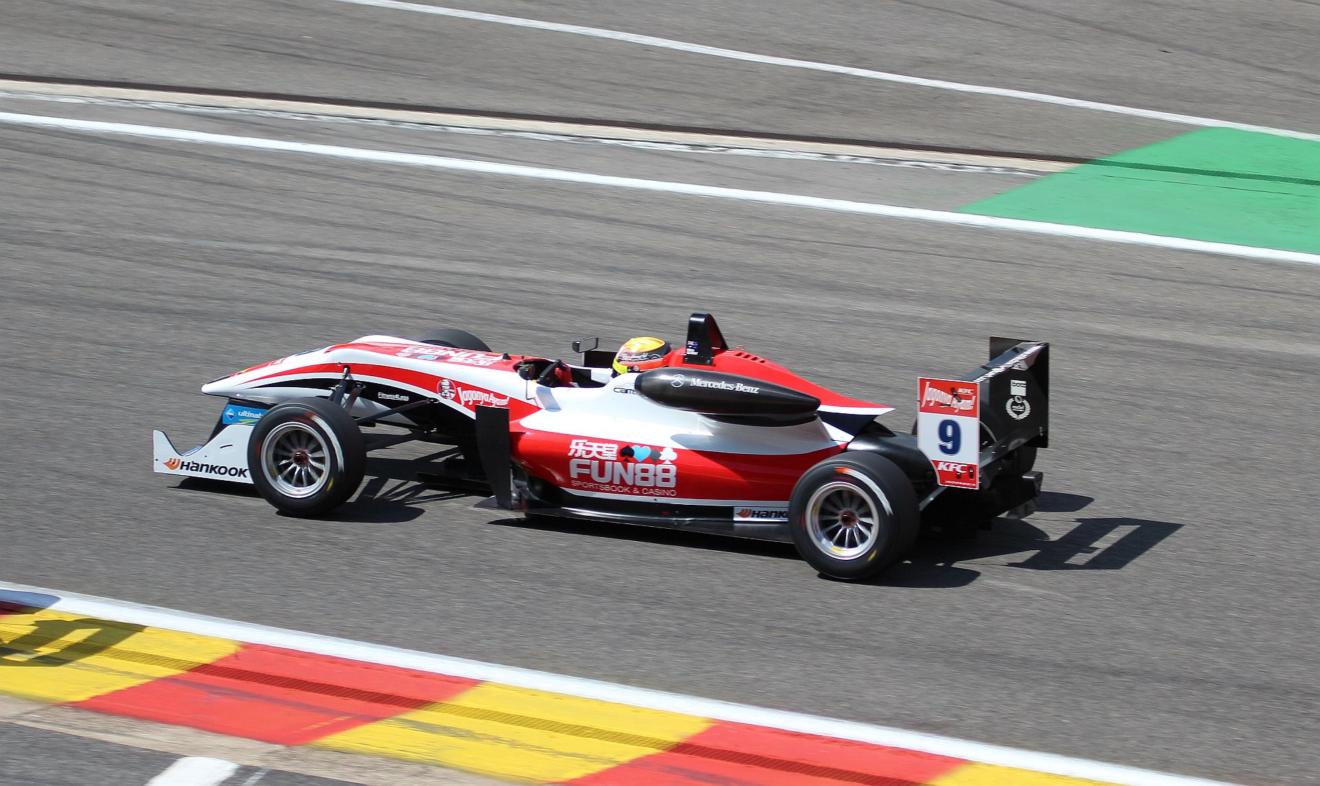 Mitchell Gilbert at Spa in 2014, European Formula 3 Championship